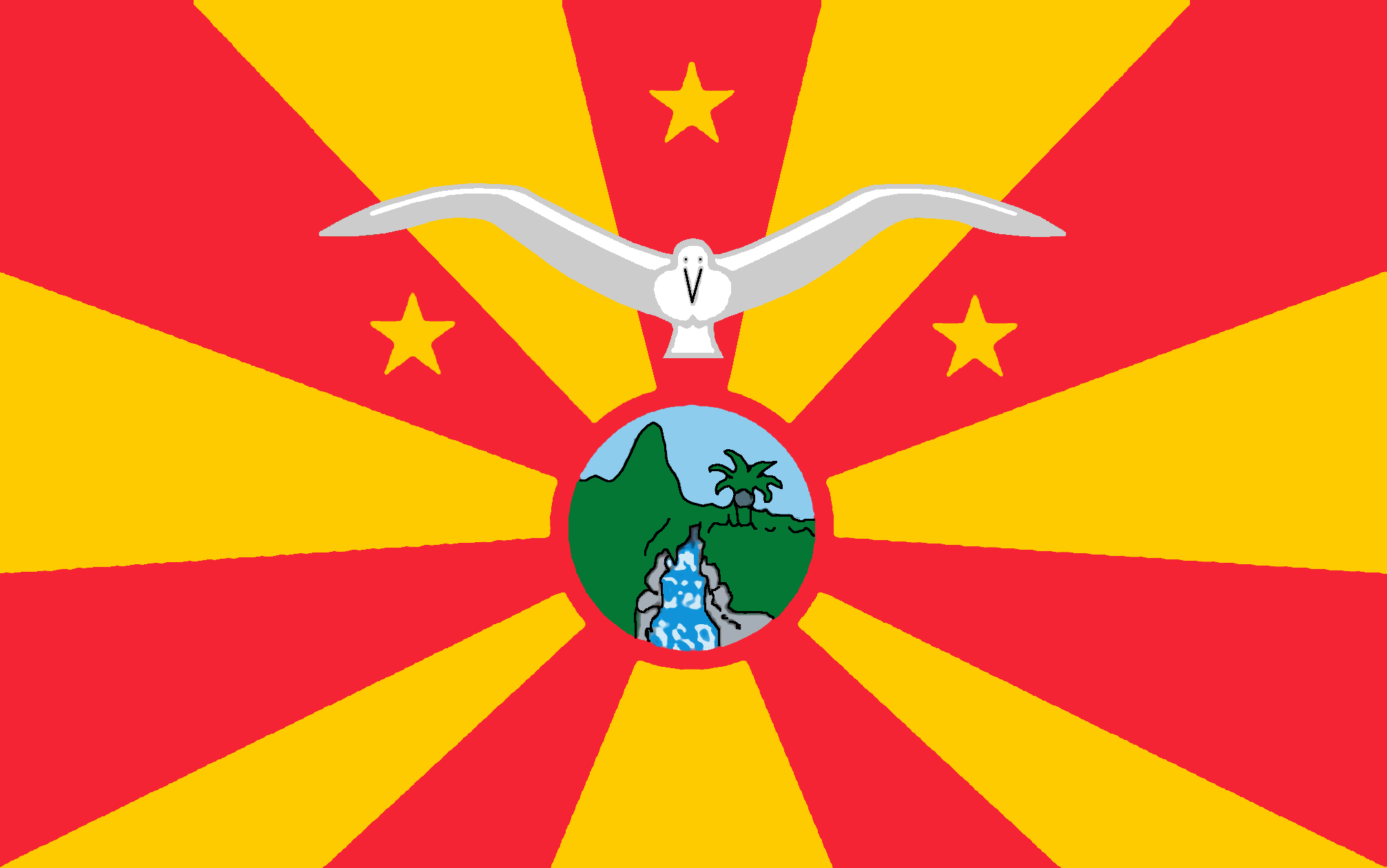 Flag of Ngardmau State Palau